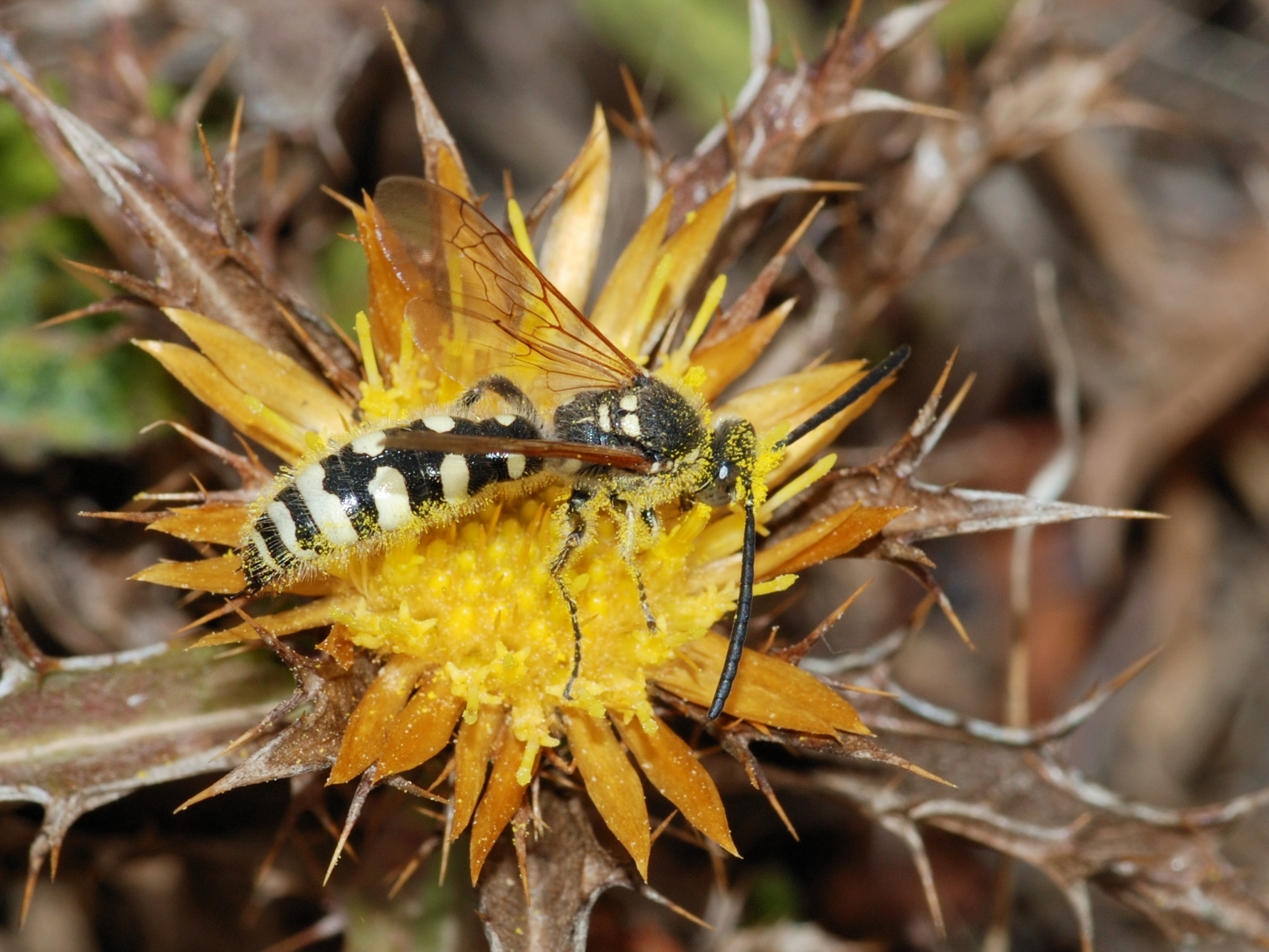 Parasitic wasp of the Scoliidae family (male Colpa sexmaculata).